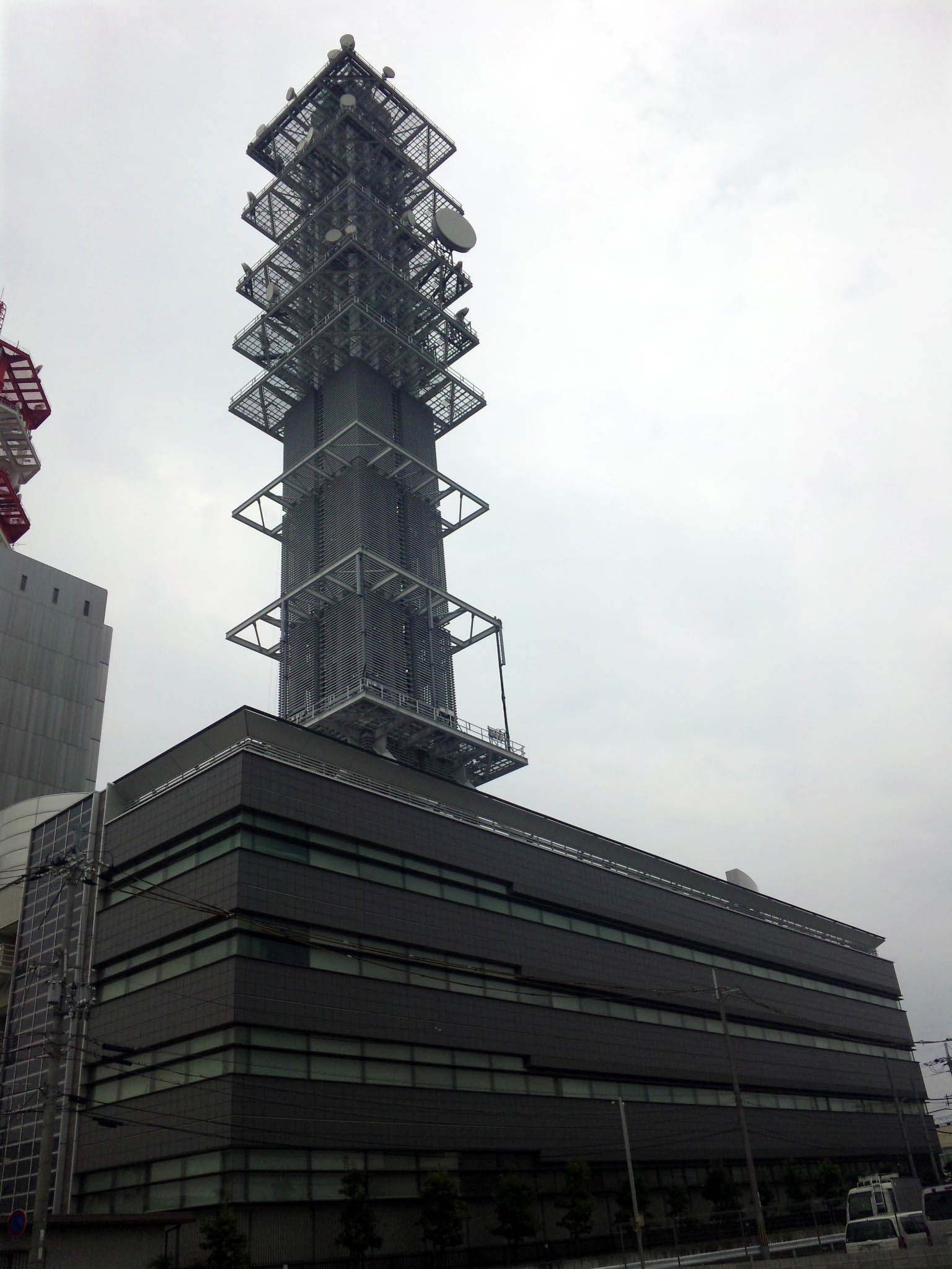 NTT DOCOMO Kyoto Buildings